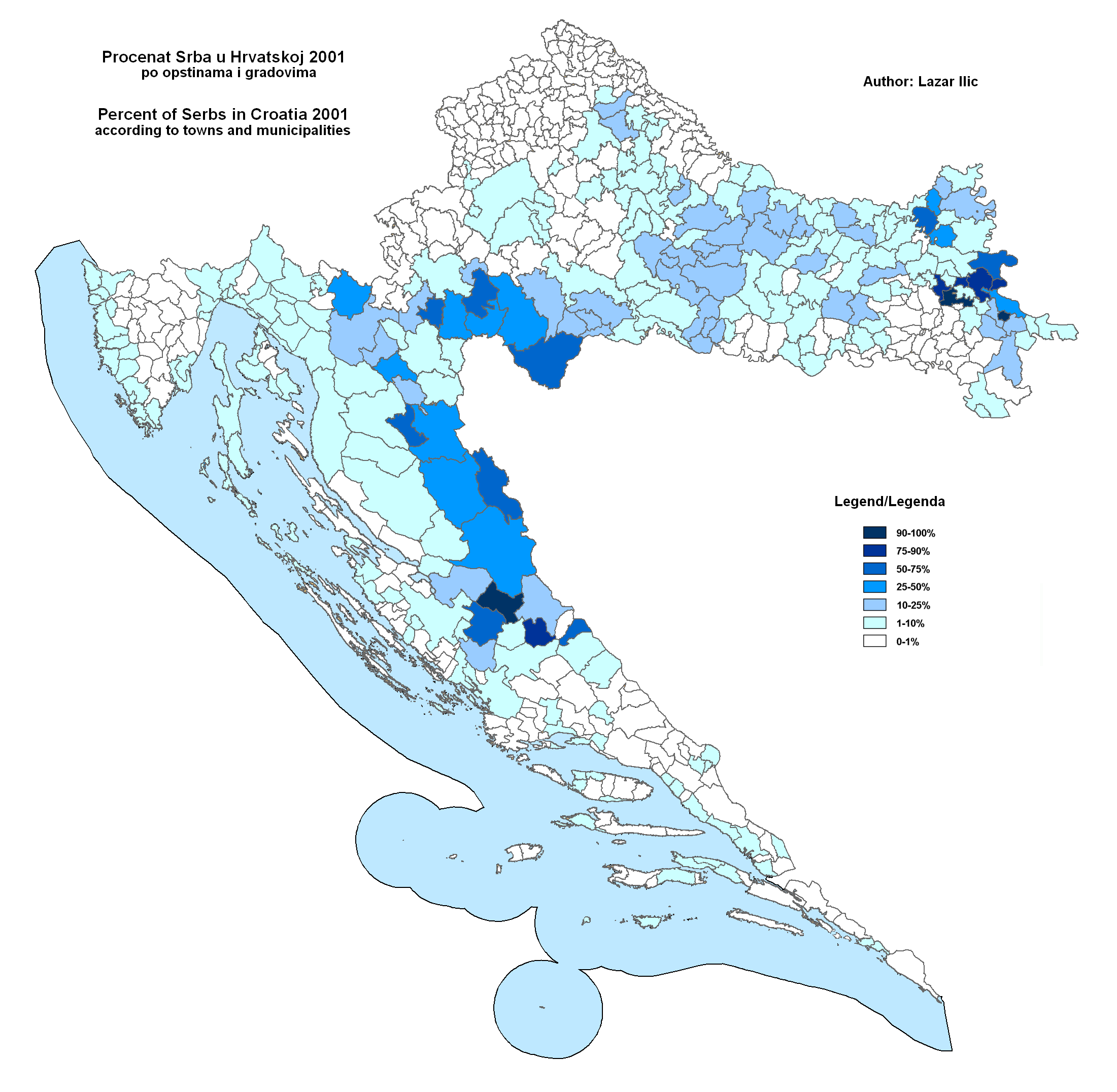 Percent of Serbs in Croatia according to the 2001 population census.